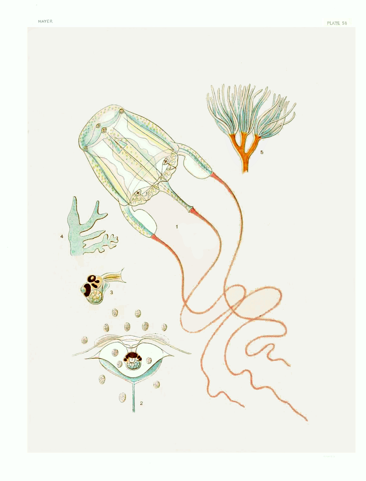 Carybdea marsupialis. 1. mature medusa (Naples Zoological Station, December 5 1907). 2. Sense-club seen from exumbrella side. 3. Side view of sense-club. 4. One of the velar canals showing its branches. 5. One of the gastric cirri showing one of its brush-like terminal branches. Drawn from life by A.G.Mayer